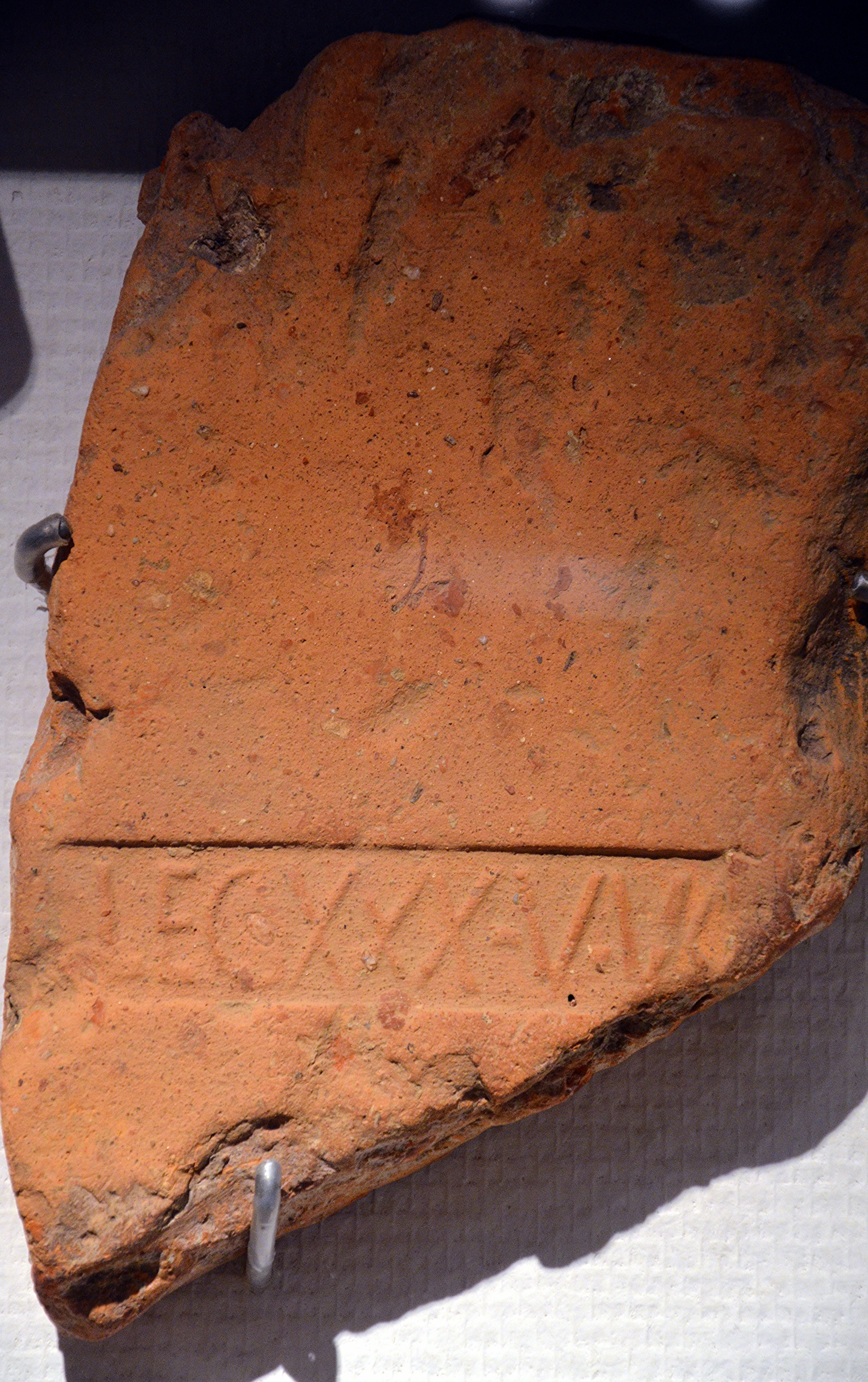 Roof tile stamp with the sign of the Legio XXX Ulpia Victrix found at the ancient site of Forum Hadriani, Rijksmuseum van Oudheden, Leiden